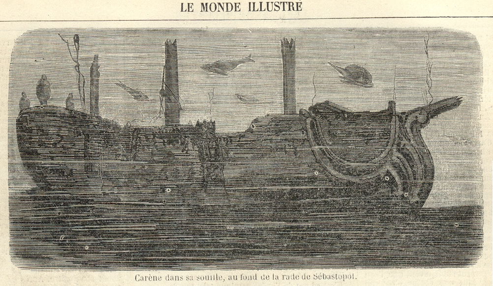 Hull in its resting place, deep in the bay of Sevastopol